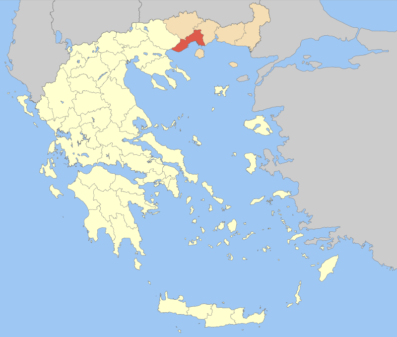 Locator map of Kavala regional unit (Περιφερειακή Ενότητα Καβάλας) in Greece